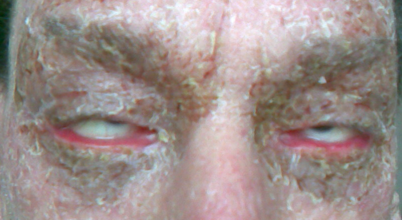 Cycatricial ectropion - closed eyes Srpskohrvatski / српскохрватски: Ektropij uzrokovan opeklinama kapaka i lica: ožiljno skraćenje kože donjih kapaka onemogućava sklapanje kapaka i ostavlja vjeđni rasporak otvorenim (lagoftalmus)